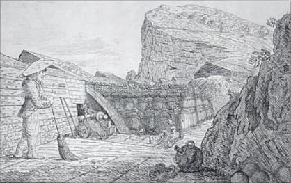 Princess Amelia's Battery, c. 1780 George Koehler (crediited in Fa and Finlason - Fortifications of Gibraltar)